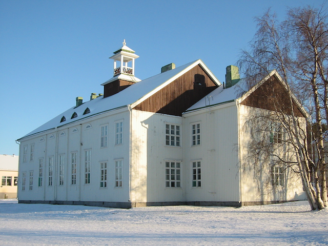 Main building of Ylitornion kristillinen opisto